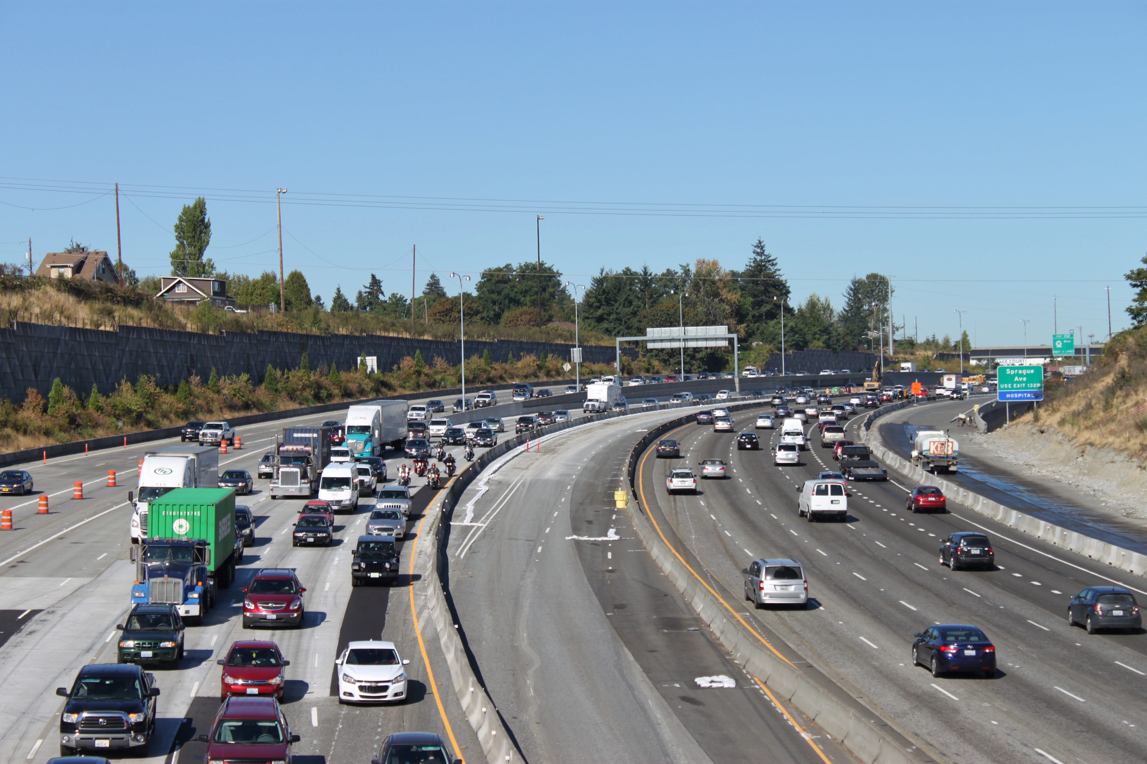 Looking southbound on Interstate 5 in Tacoma, Washington, during an expansion project.